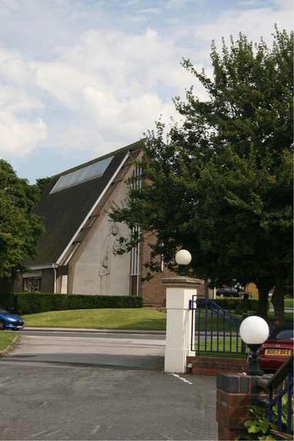 St Martins Church St Martins church is situated on the Sutton Road, Walsall. Carving by Raymond Forbes Kings. This photograph was taken from the car park of the longhorn public House opposite.